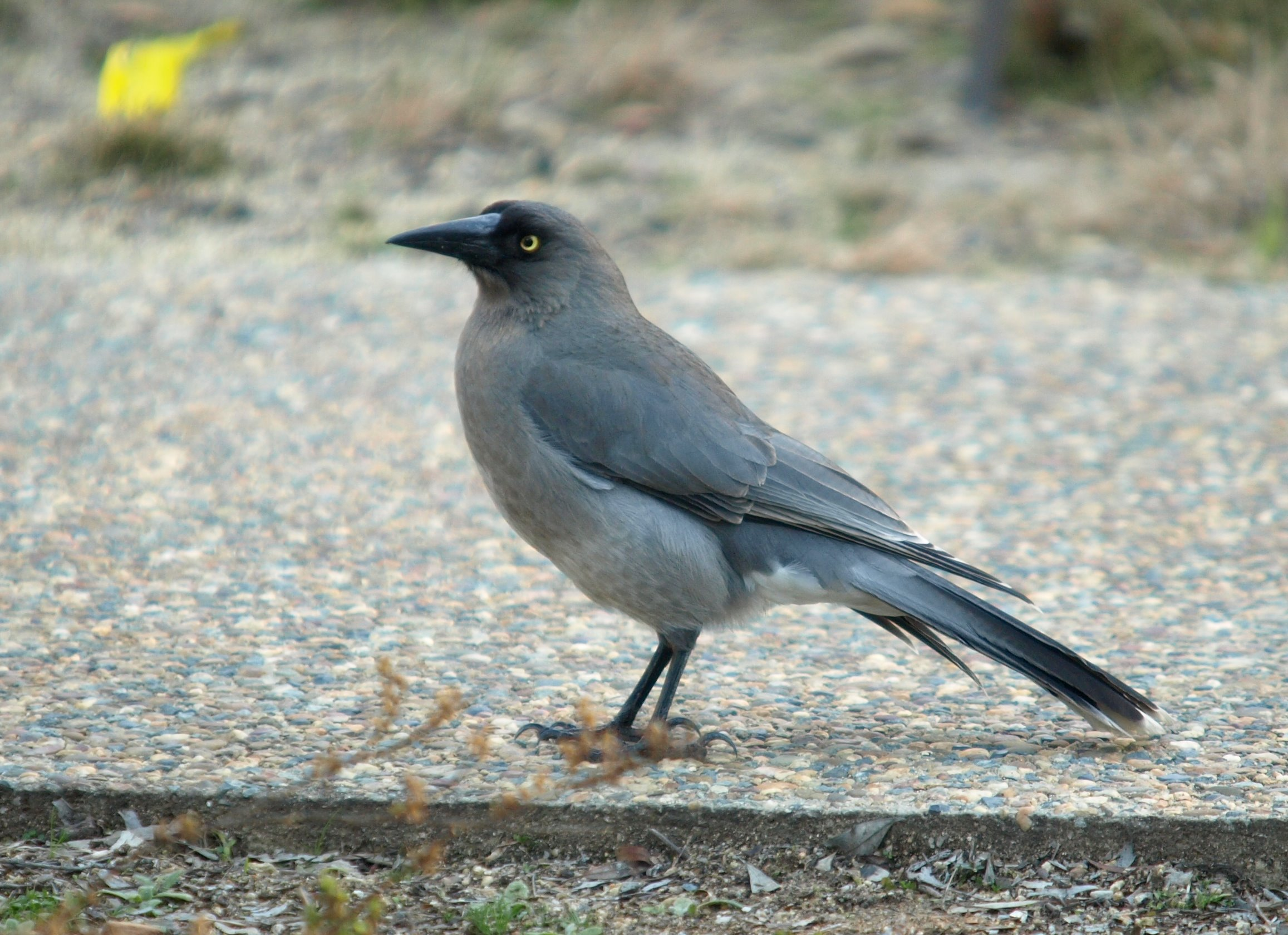 Adult Grey Currawong (Strepera versicolor), nominate race versicolor, Australian National Botanic Gardens, Canberra